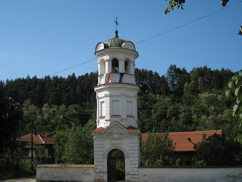 Nativity of the Theotokos Church in Berkovitsa, Bulgaria